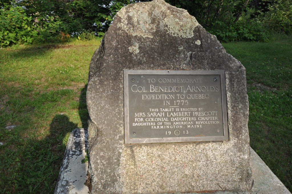 Commemorative marker on the Arnold Trail to Quebec in Eustis, Maine, at the western shore of Flagstaff Lake.